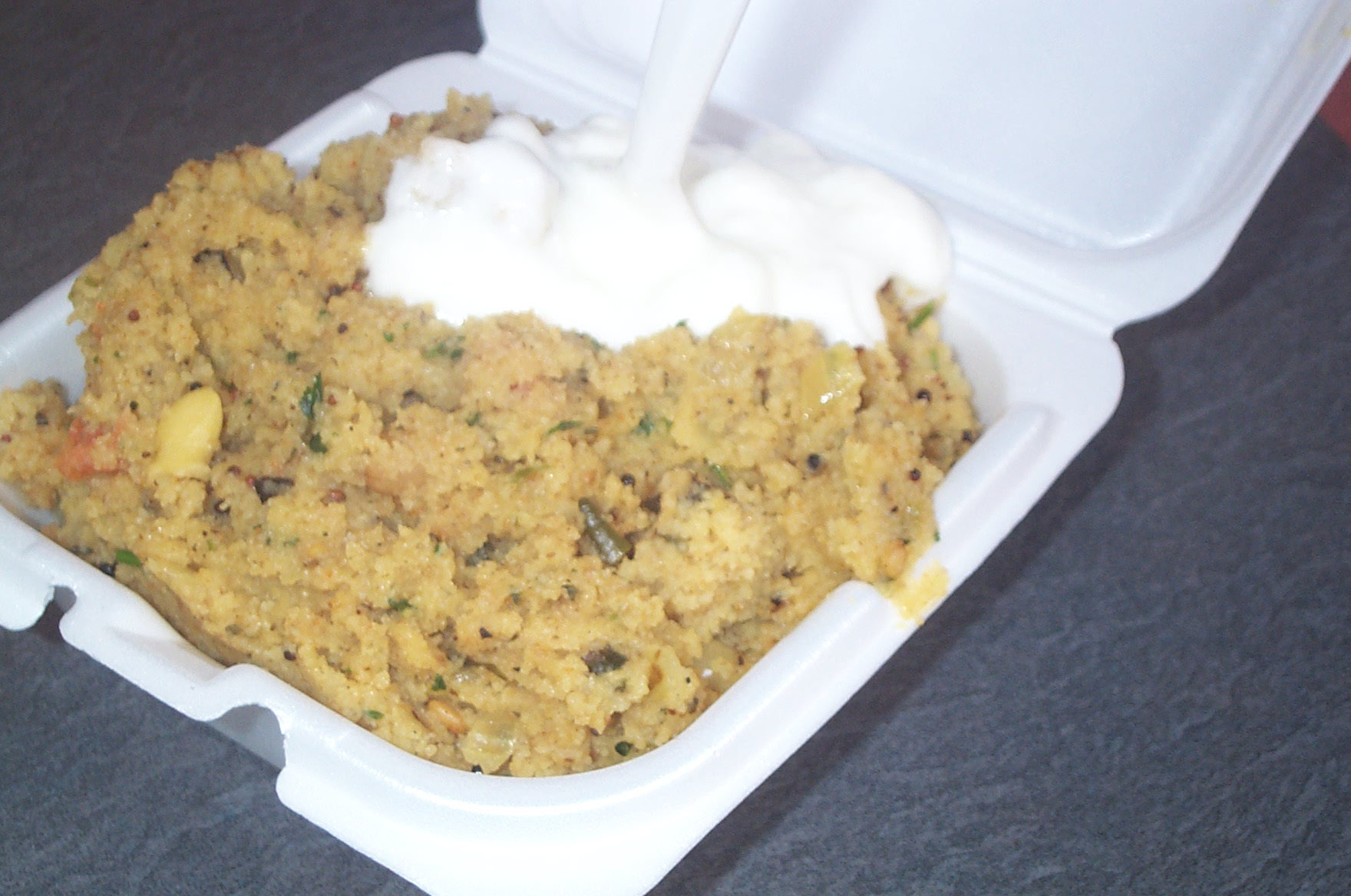 Upma - an Indian dish made of wheat Rava (semolina)